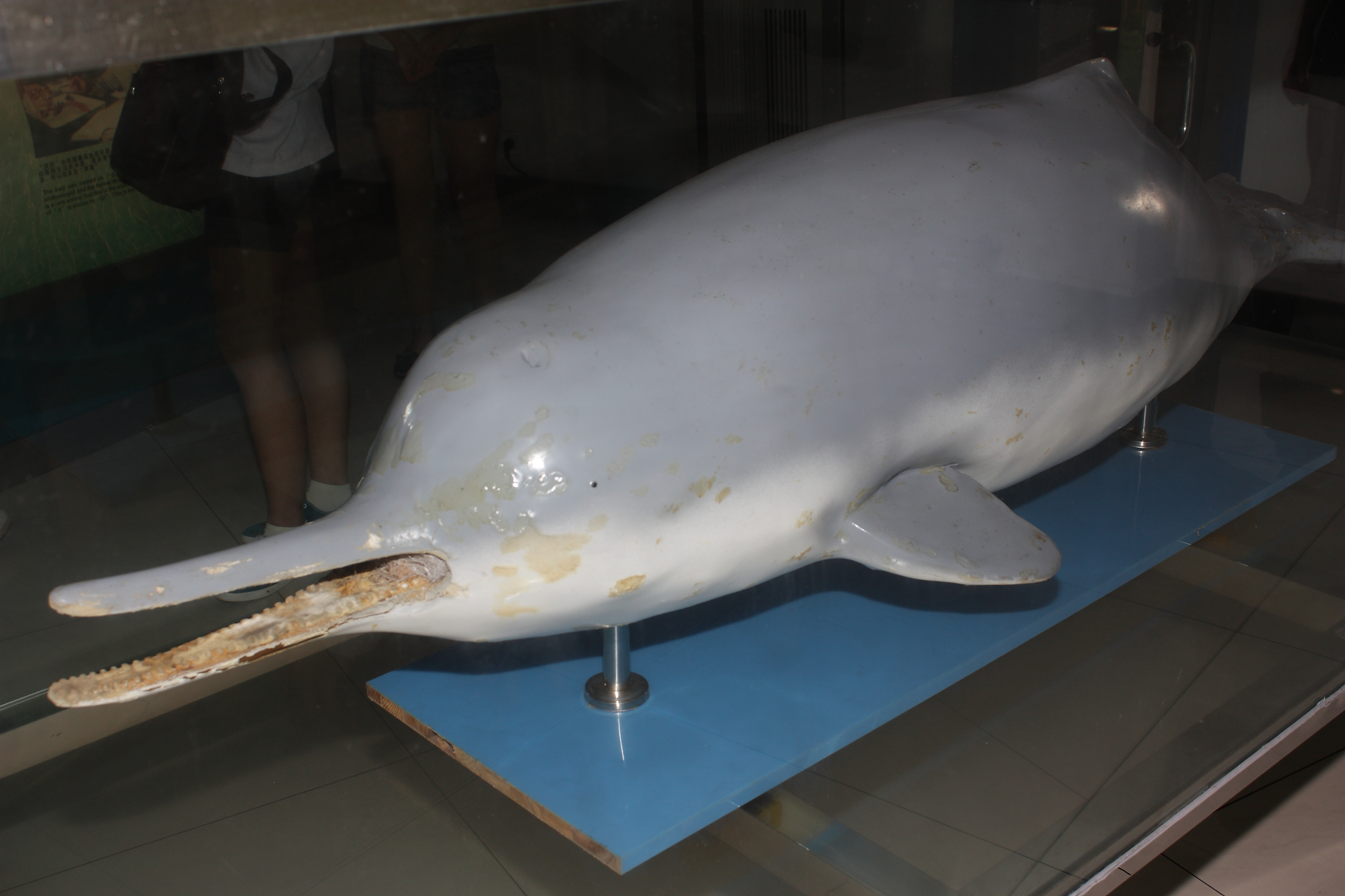 Chinese Baiji dolphin specimen Qi Qi in the Institute of Hydrobiology, Chinese Academy of Sciences, on 27 July 2011.